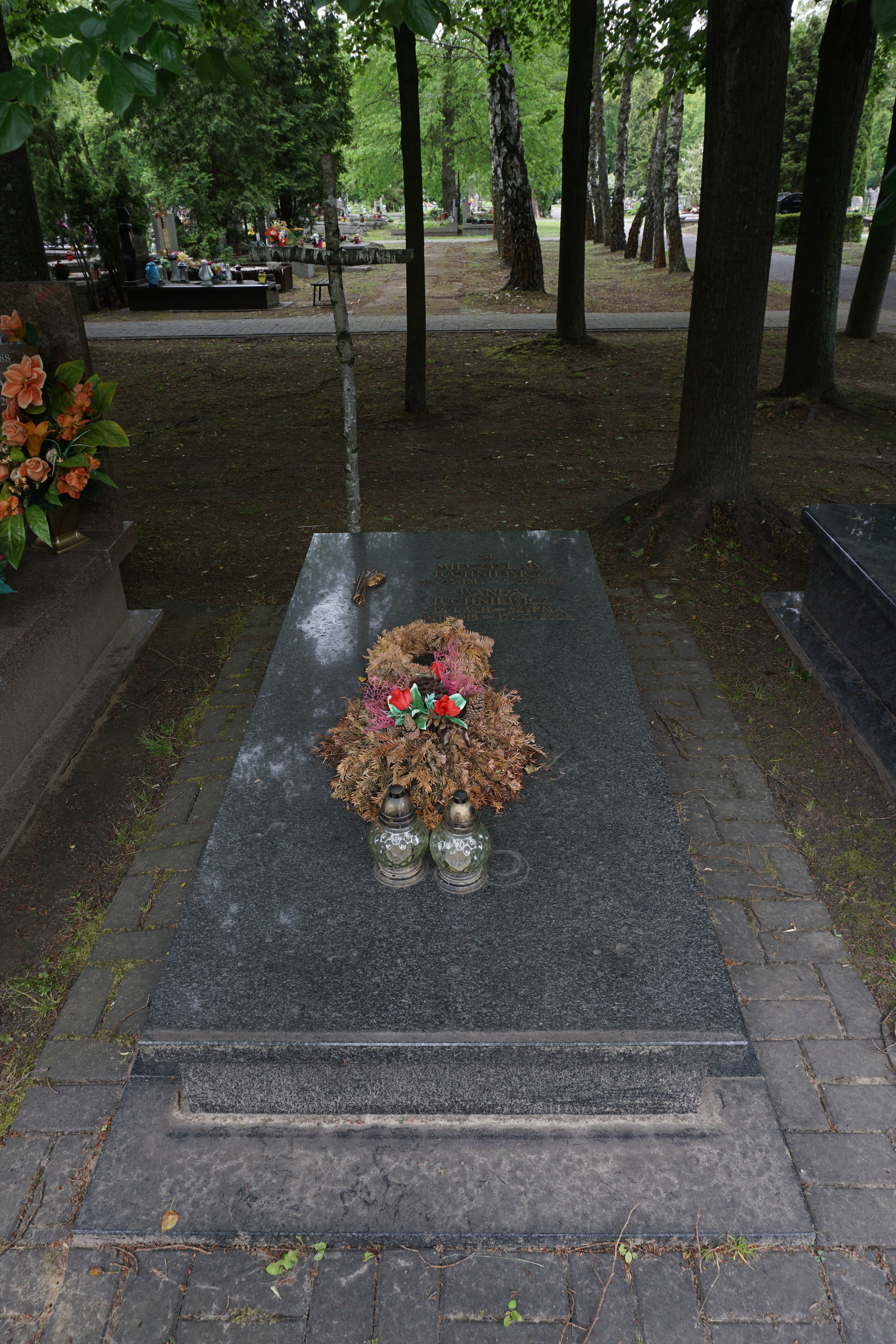 The grave of Mieczysław Juchniewicz at the North Municipal Cemetery in Warsaw (section E-XV-1, row 3, grave 21)